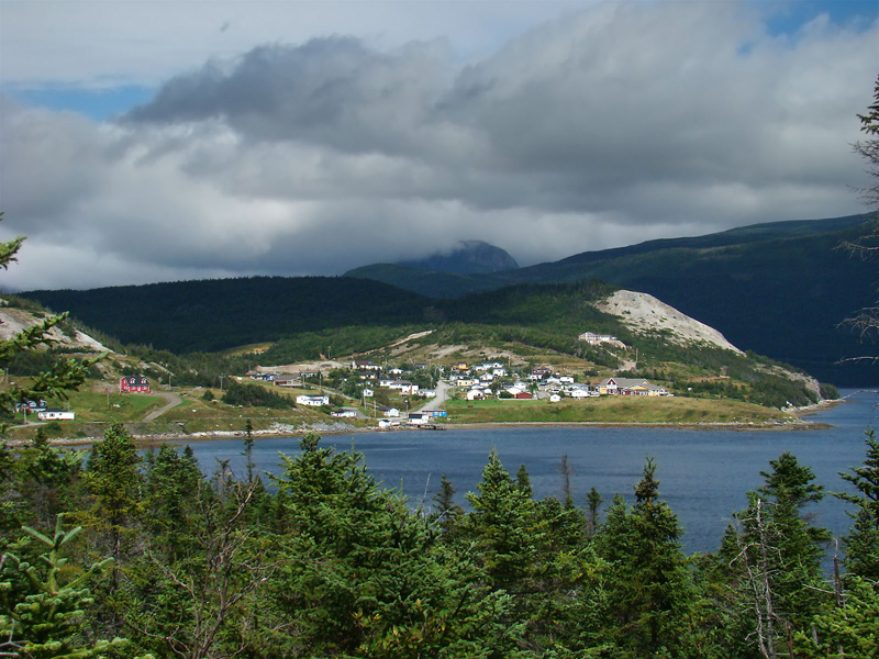 Norris Point, Bonne Bay, Western Newfoundland, Canada. View from the Burnt Hill Hiking Trail.